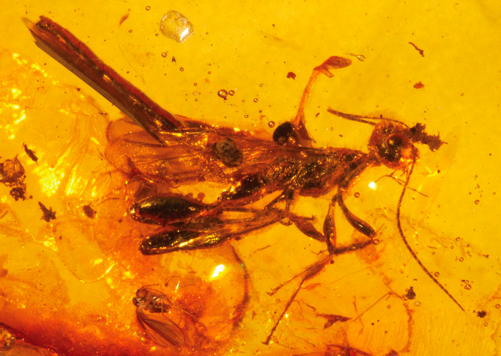 Neotype male of Electrostephanus petiolatus Brues in Baltic amber (AMNH B-JWJ-260)